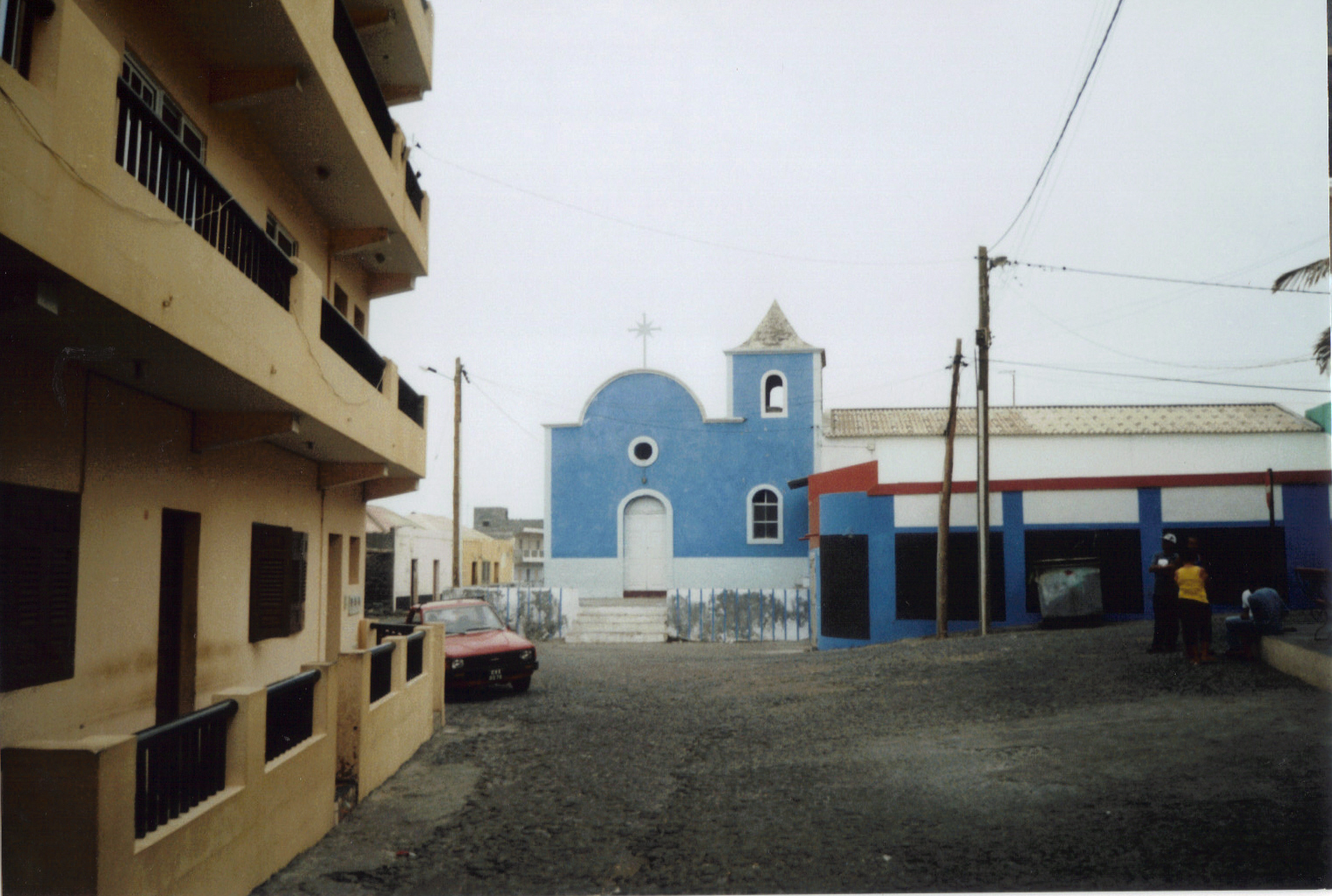 Church in Mosteiros town, island of Fogo, Cape Verde